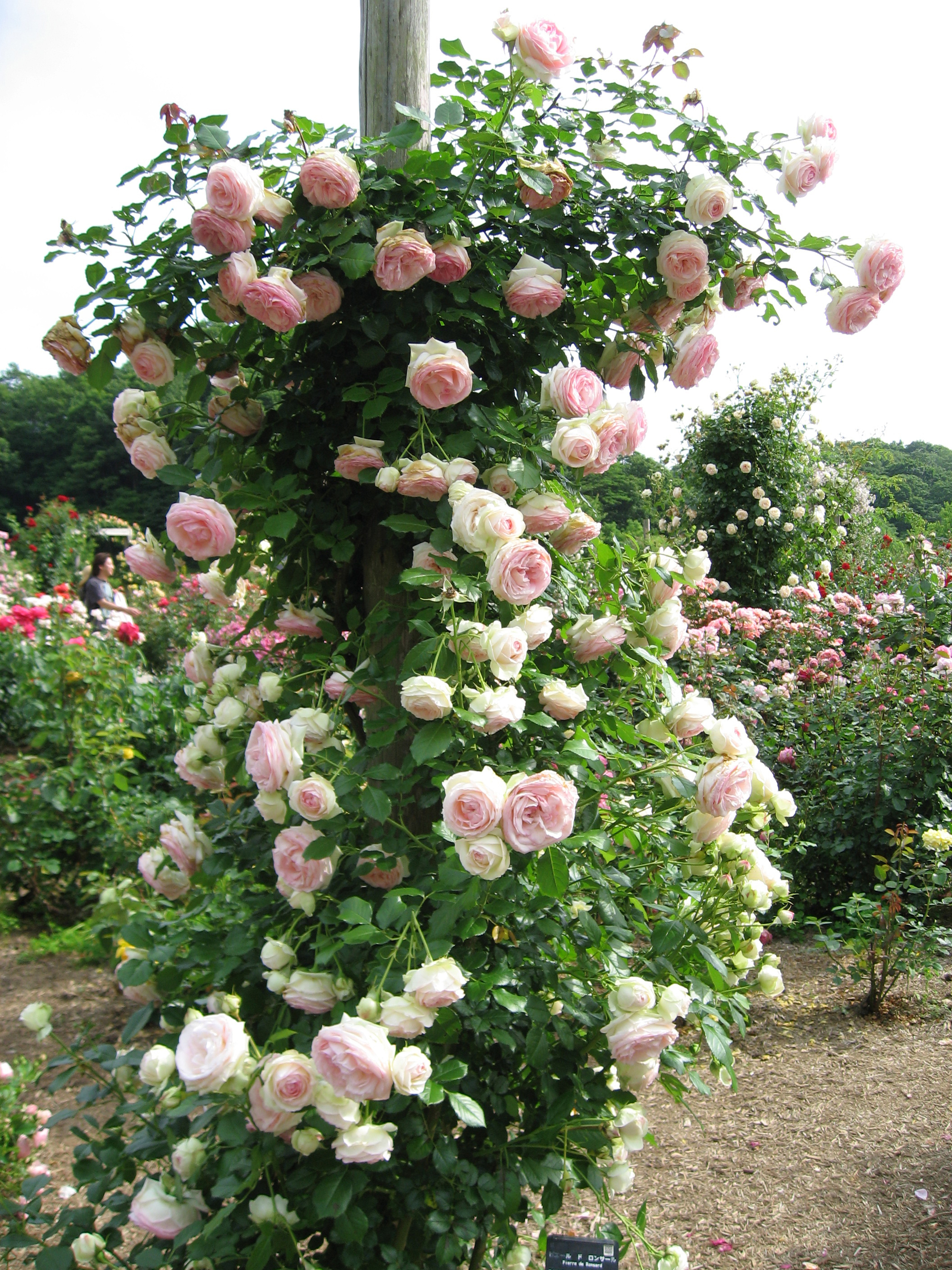 Rosa cv 'Pierre de Ronsard', CL, Meilland (1987), Flower Festival Commemorative Park Seta Kani, Gifu Japan.